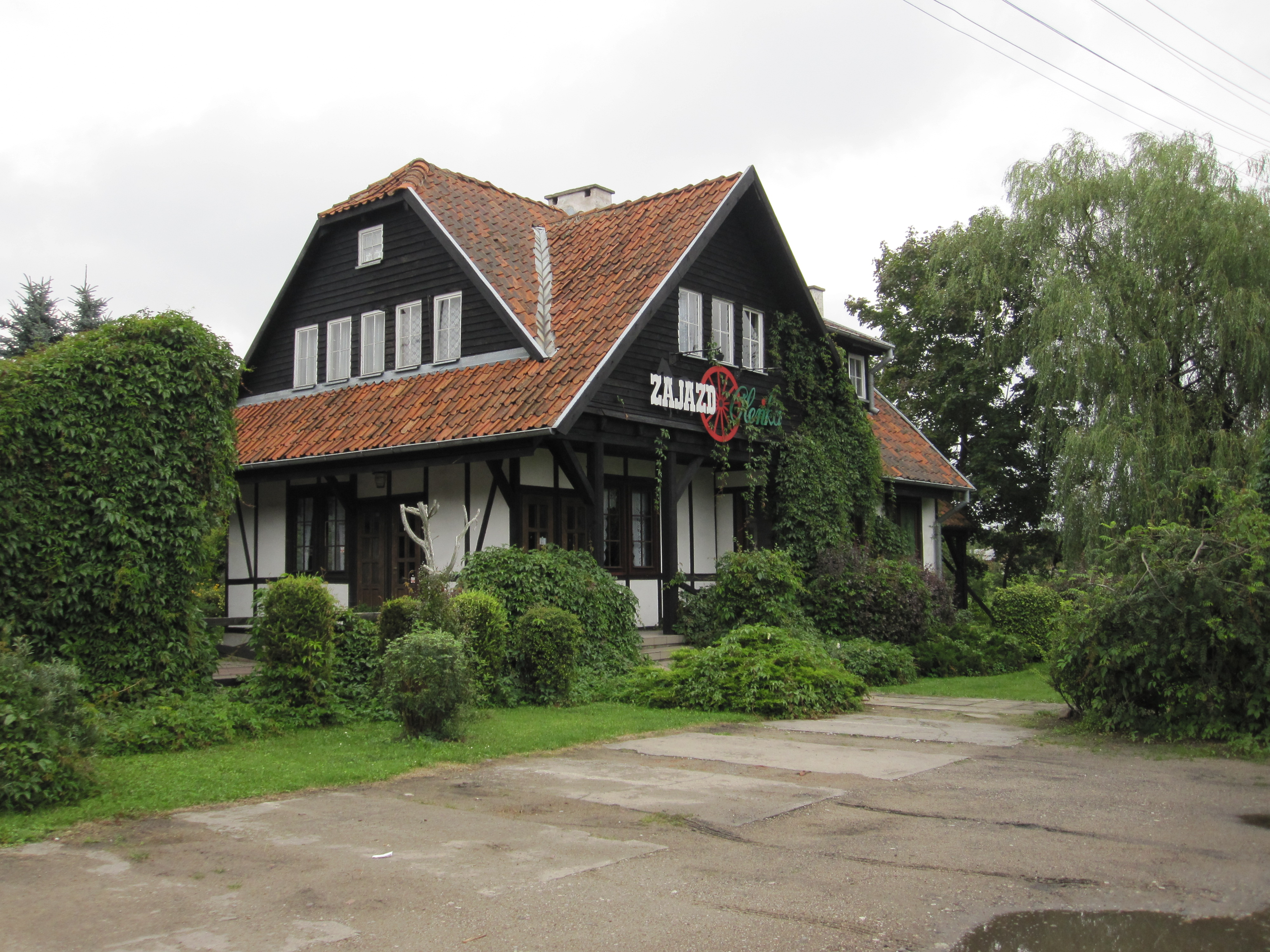 Jedwabno - "Oleńka" Inn on 2a Polna street